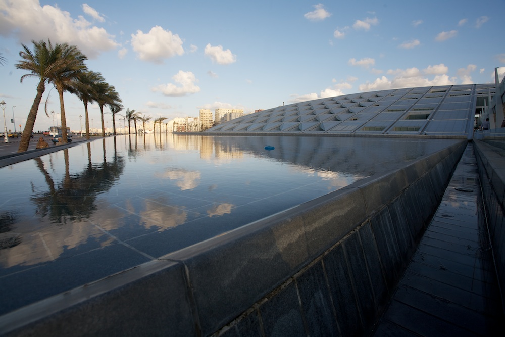 The Bibliotheca Alexandrina from the Mediterranean side.